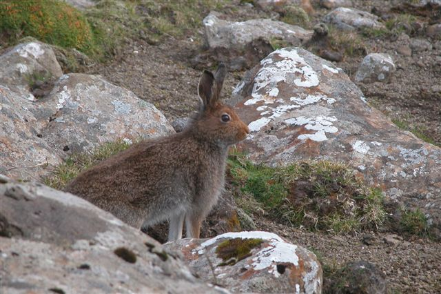 Mountain Hare, Suðuroy